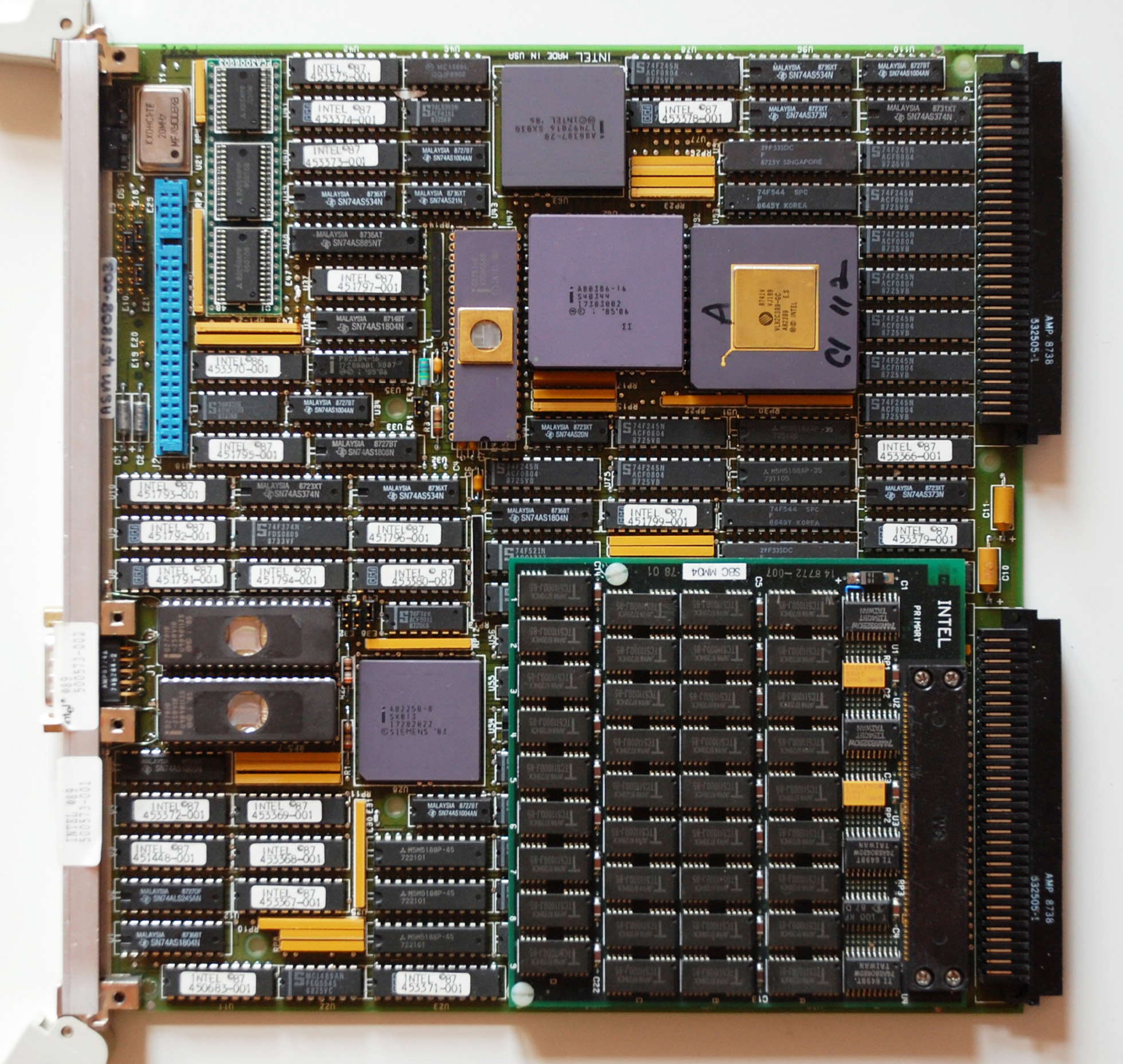 Intel iSBC 386/116 Multibus II Single Board Computer with A80386-16 S40344 CPU, A80387-20 SX030 FPU, 82389 Intel/VLSI Multibus II Controller, Intel A82258-8 SX013 ADMA-Controller, C8751-8 (modified) EPROM Controller, Intel D27010 EPROMs and RAM-Board. Taken from an IBM-PC.